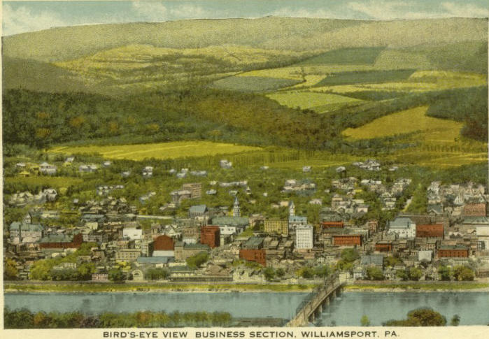 Postcard: Aerial view, business section, Williamsport, Pennsylvania, United States, 1919 postmark. Description from store Web page: "postmarked Williamsport, Pa. 1919" Caption on front of card: "Birds-eye view, business section, Williamsport, Pa." Postcard margins have been cropped by this Wikipedia editor, but not picture or caption